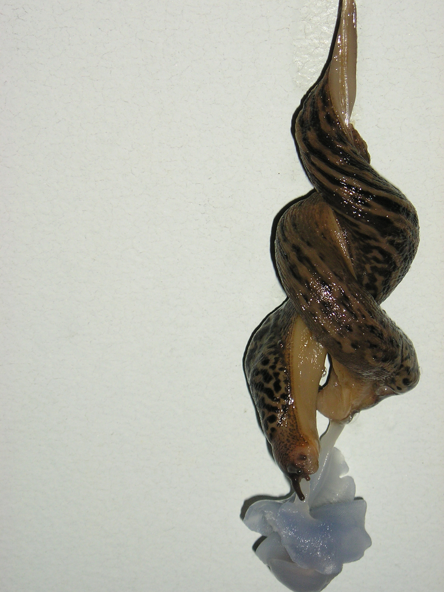 Two slugs climbed wall, circled tightly to create a pad, then descended together on mucous thread.